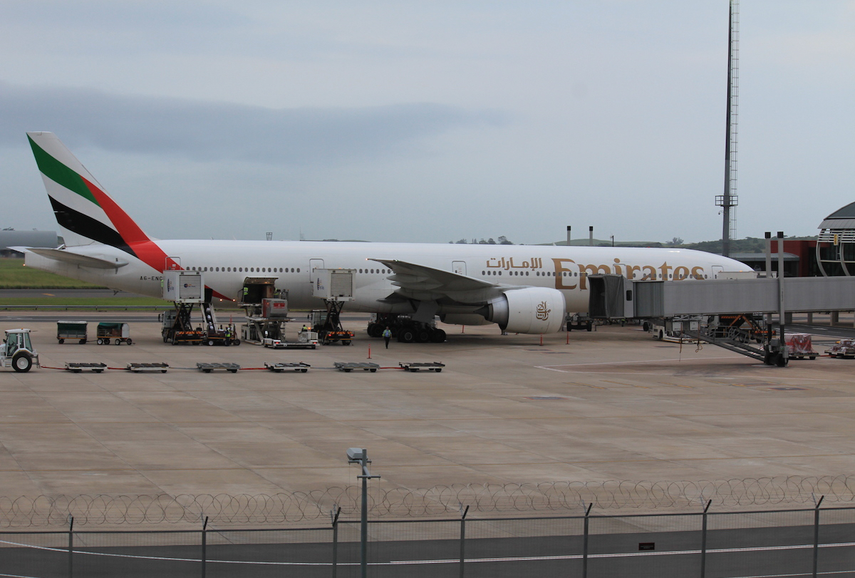 this is an image of an Emirates Boeing 777-300ER in Durban